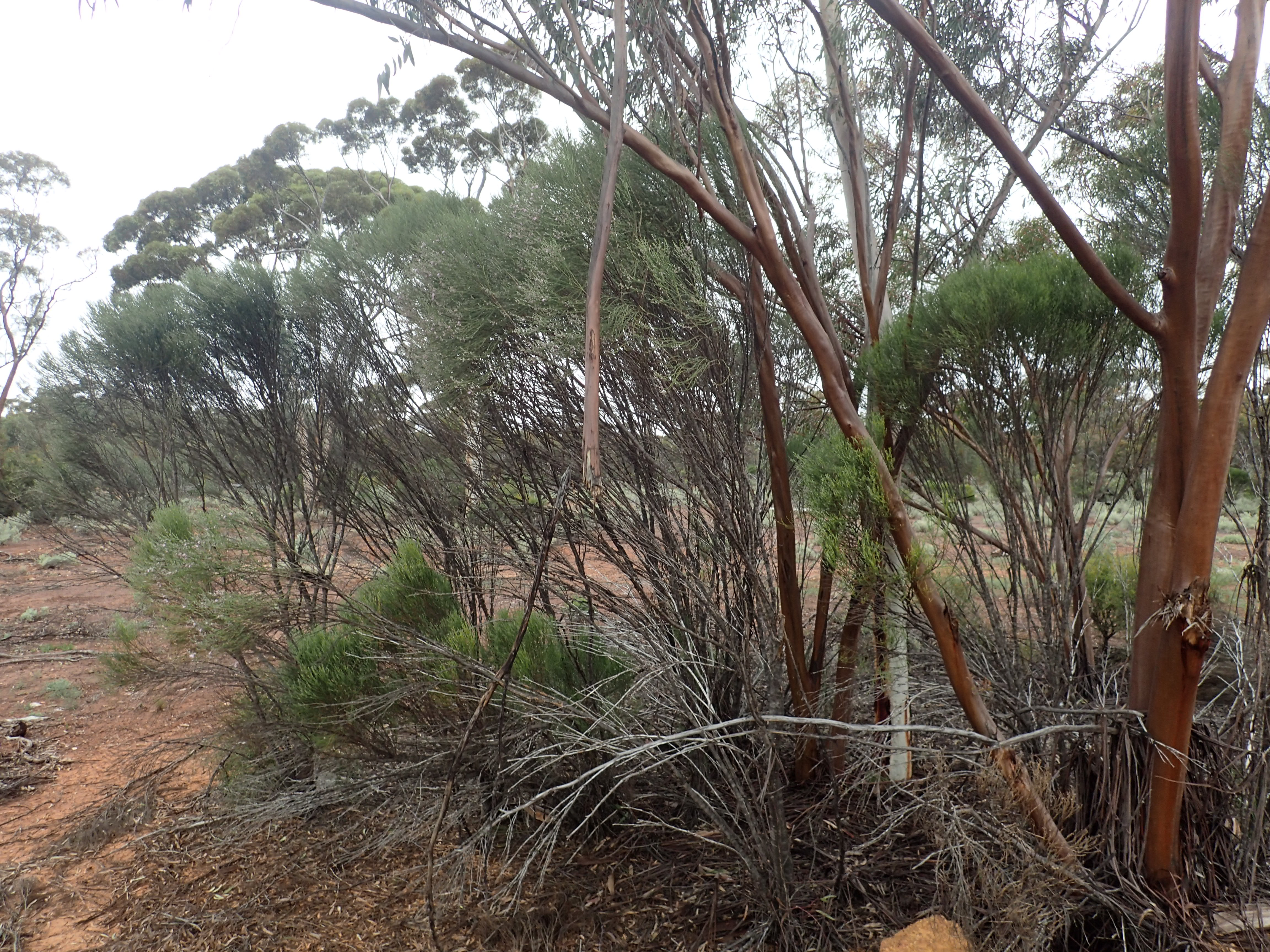 Eremophila dempsteri growing south of Widgiemooltha